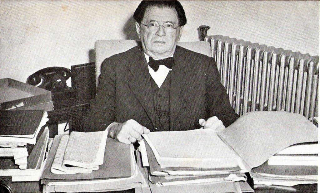 Zigfried Moses - the State Comptroller of Israel (1949-1961)